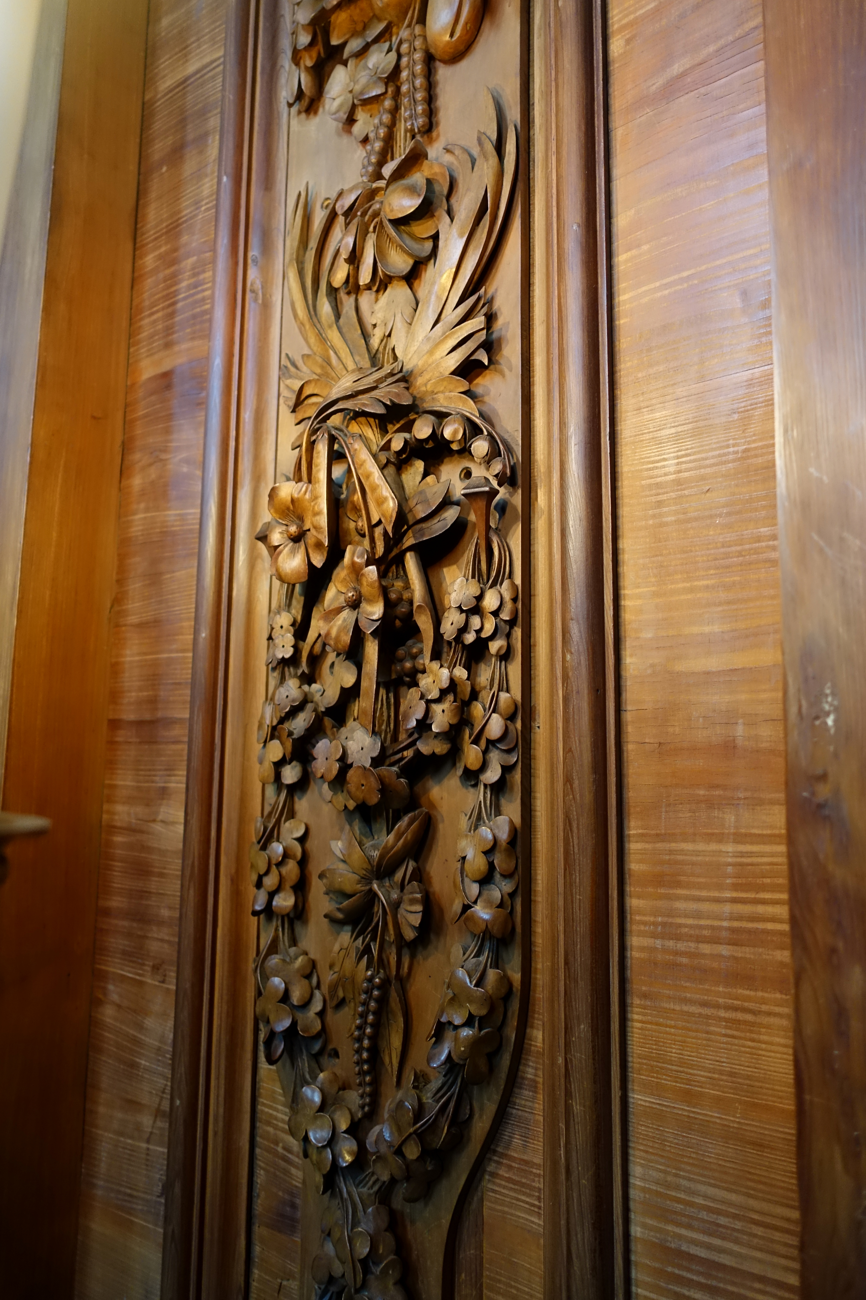 Chapel, Chatsworth House - Derbyshire, England.